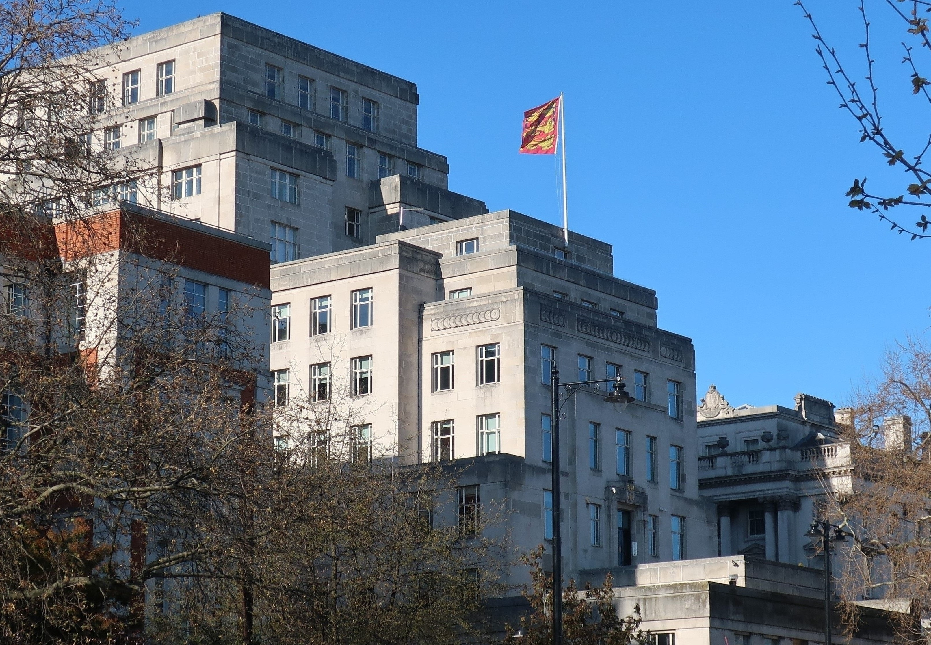 The Duchy of Lancaster offices, at 1 Lancaster Place, Strand, London WC2, viewed from the Victoria Embankment. It flies the Duchy flag. The taller building to the left is Brettenham House, a commercial office building also owned by the Duchy (and constructed at the same time).